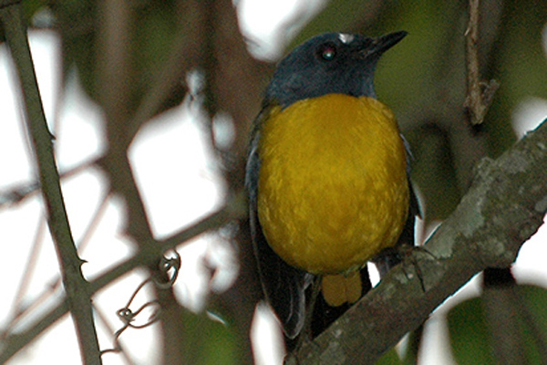 Uganda White-starred Robin (Pogonocichla stellata) Ruhija, Bwindi NP Jan 2005